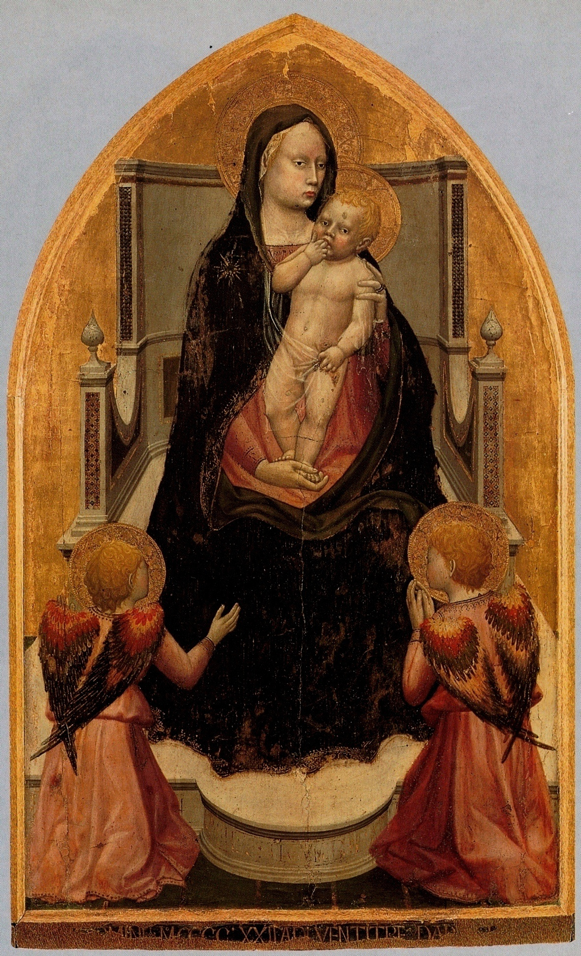 San Giovenale Triptych Central panel